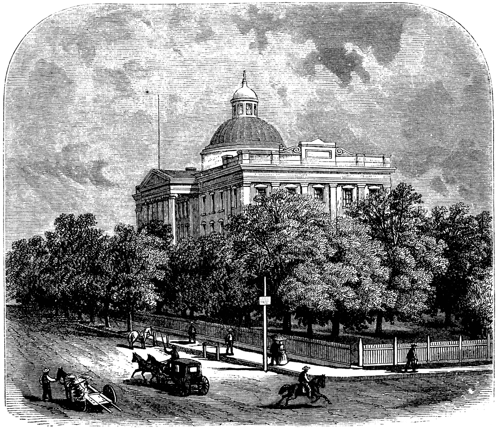 Old Mississippi State Capitol in Jackson, as depicted in Scribner's Monthly in 1874.